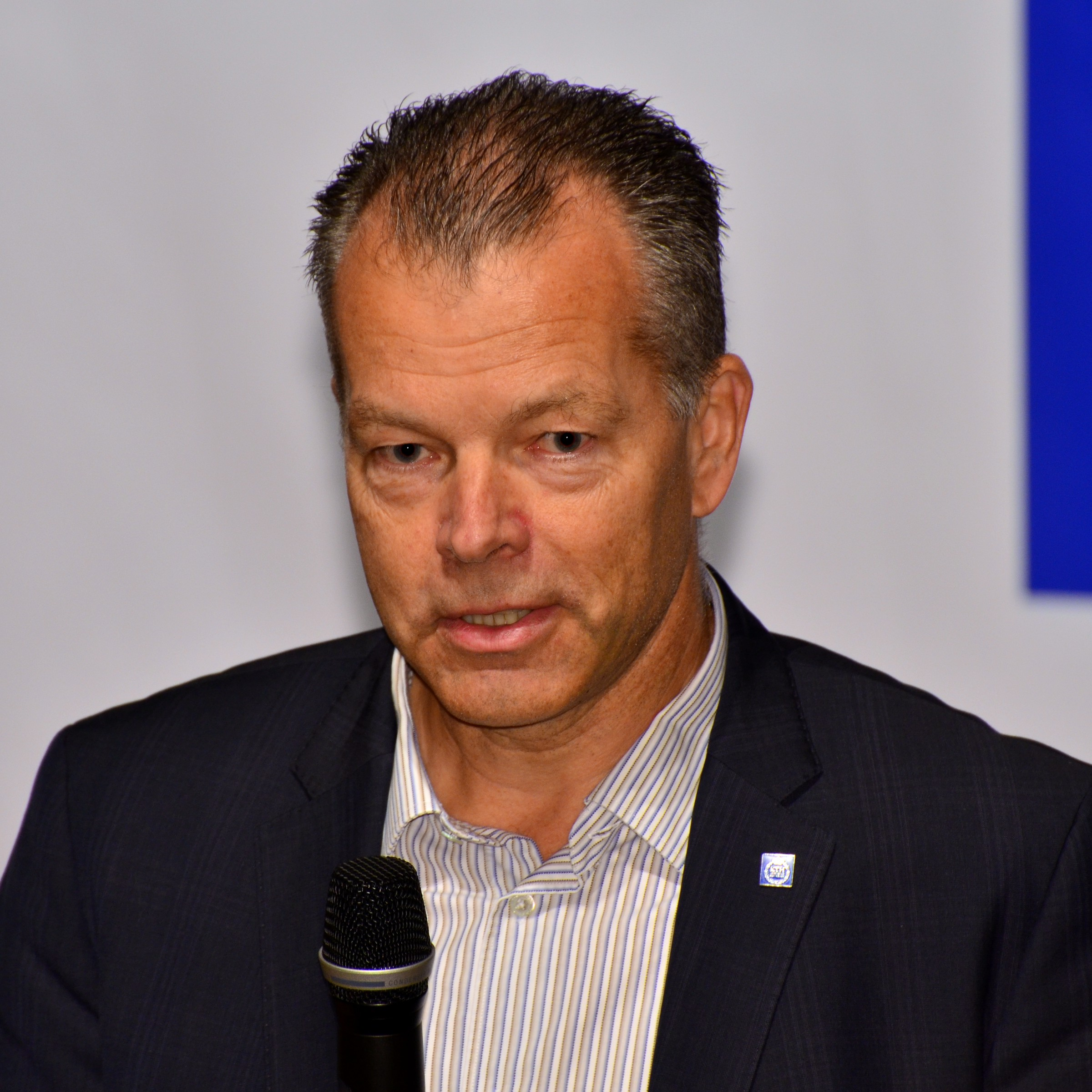 Peter Gudmundson, rector for Royal Institute of Technology.